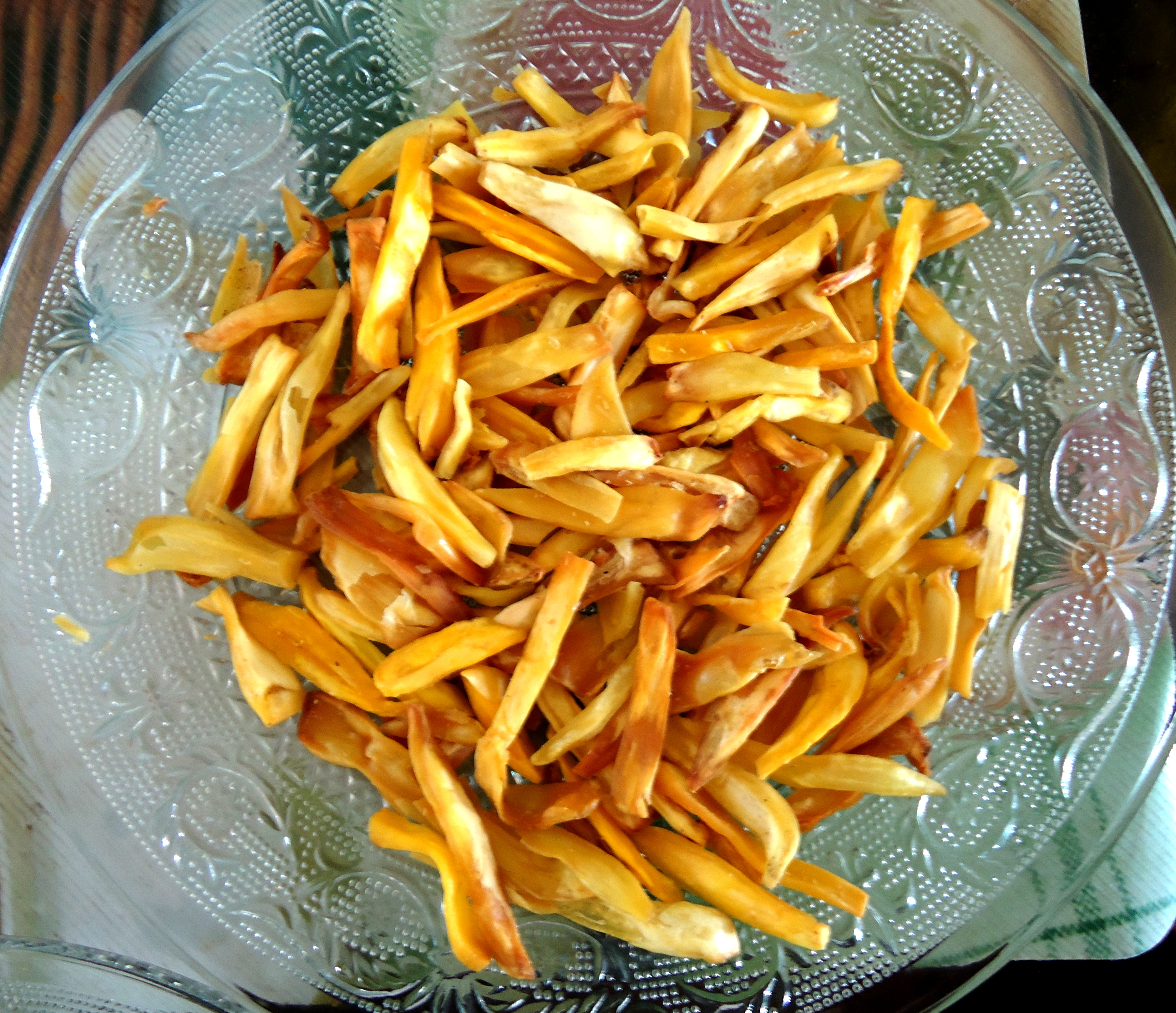 Jackfruit roast. Jackfruit fry in coconut oil from Kerala, India